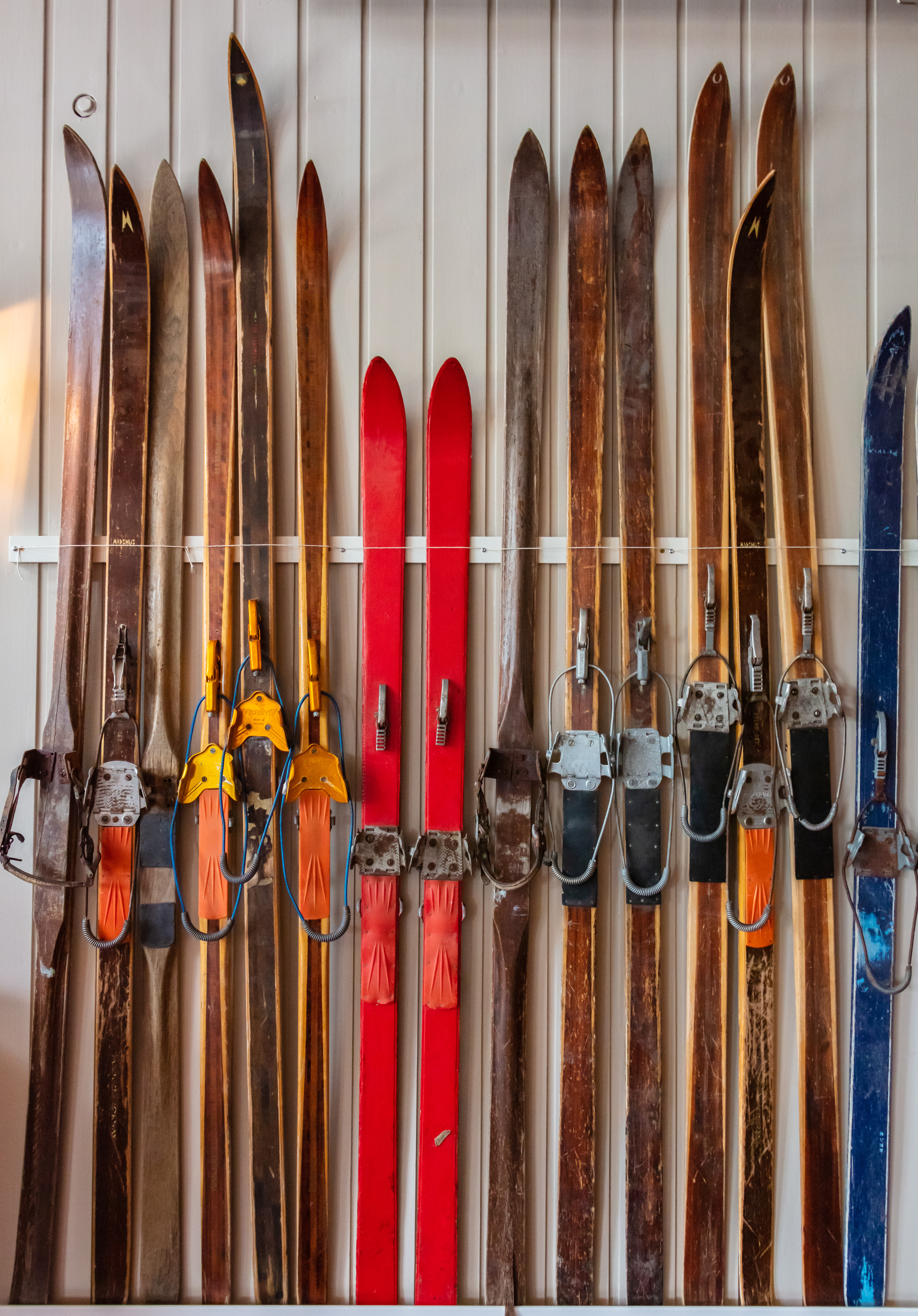 Skis, Kabelvåg, Norway